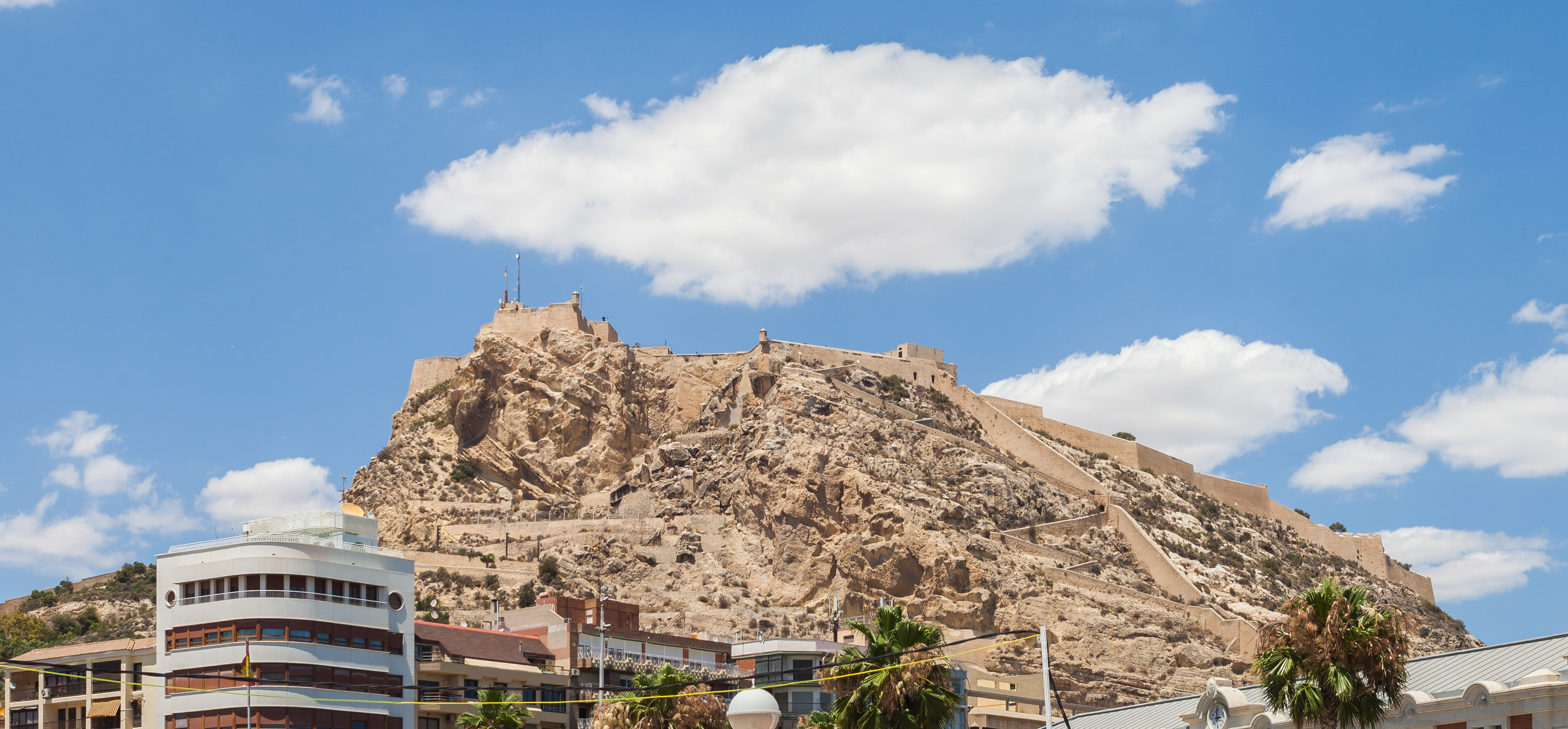 Castle of Santa Barbara, Alicante, Spain